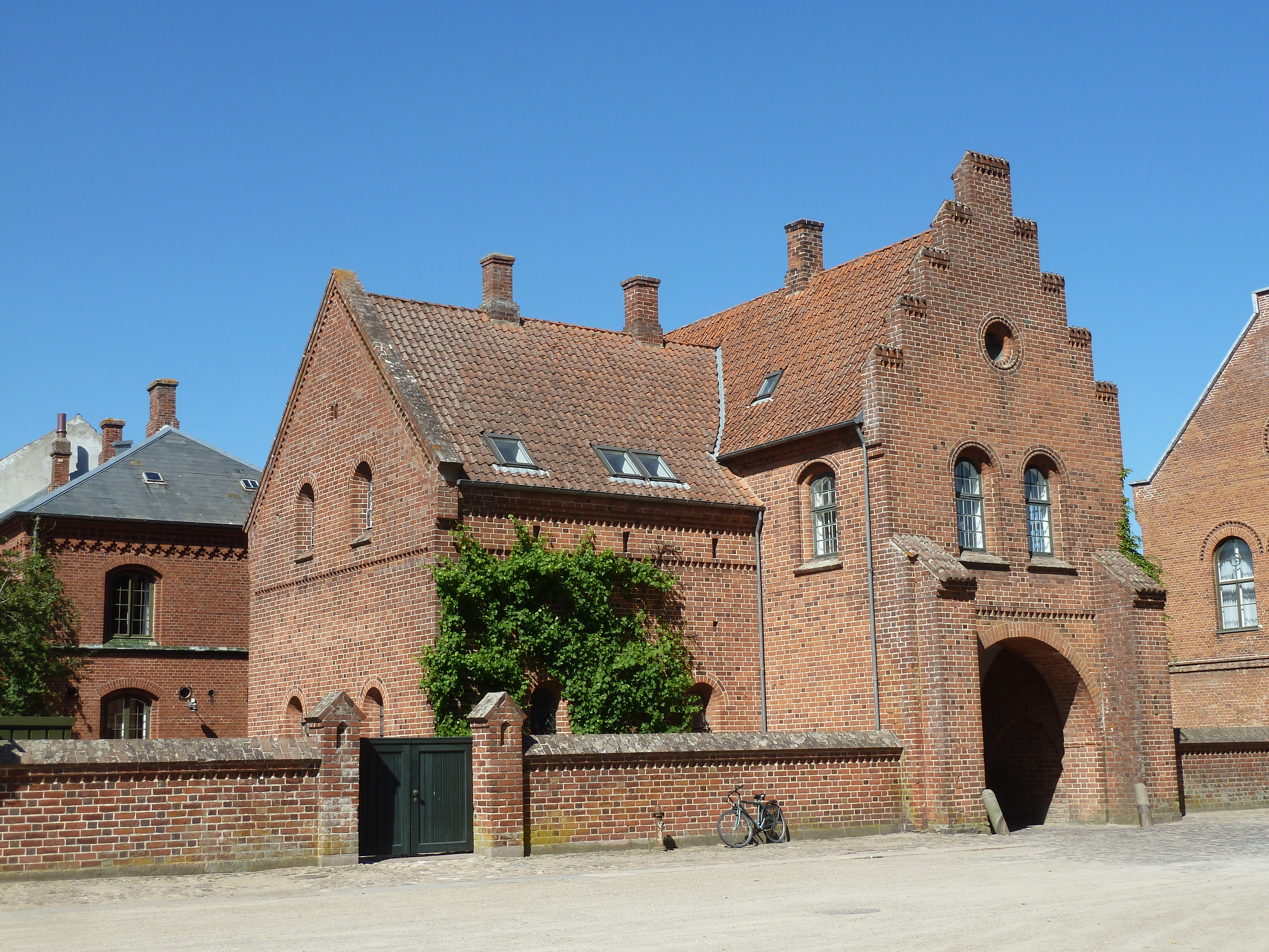 Klosterporten (Abbey Gate) at Sorø Academy in Sirø, Denmark